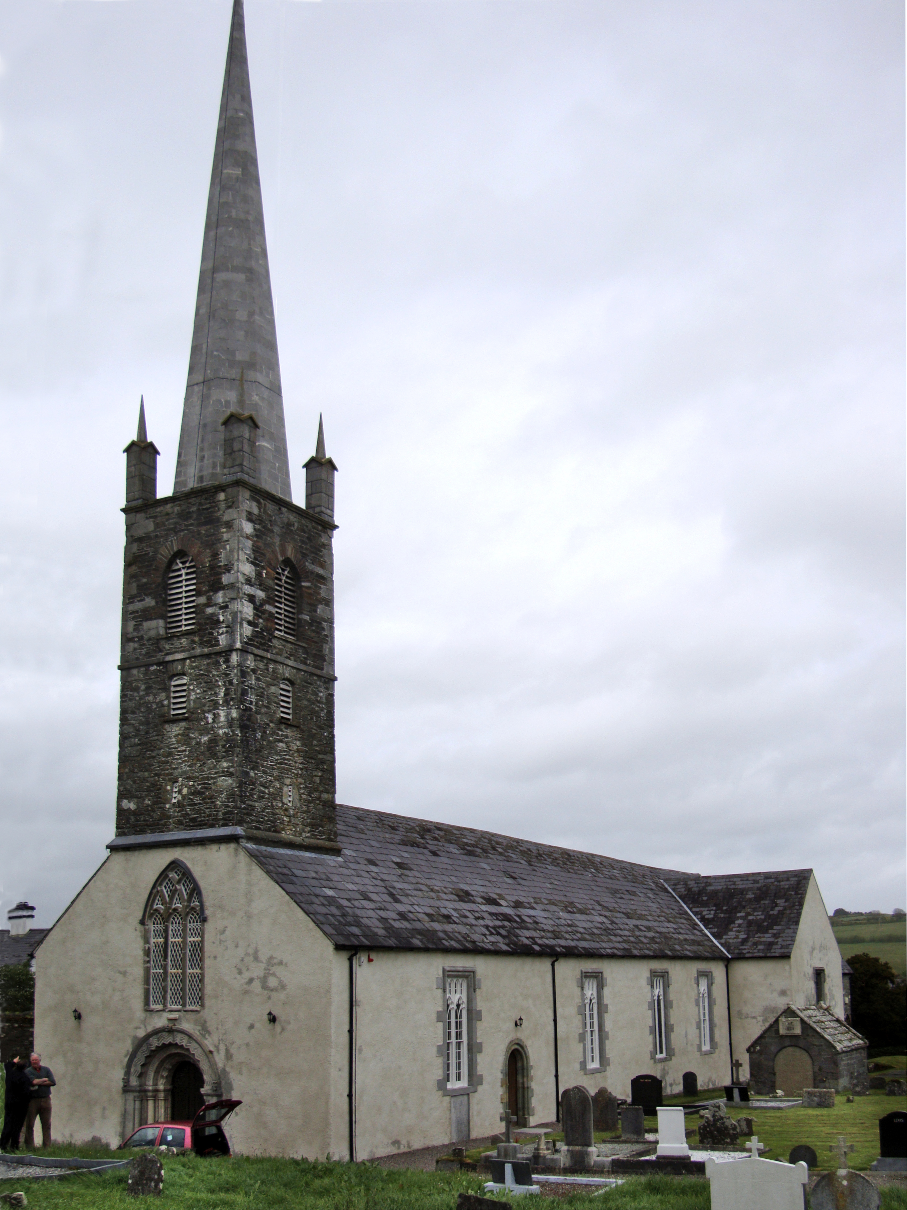 Photograph of Rosscarbery Cathedral, Co. Cork, Republic of Ireland